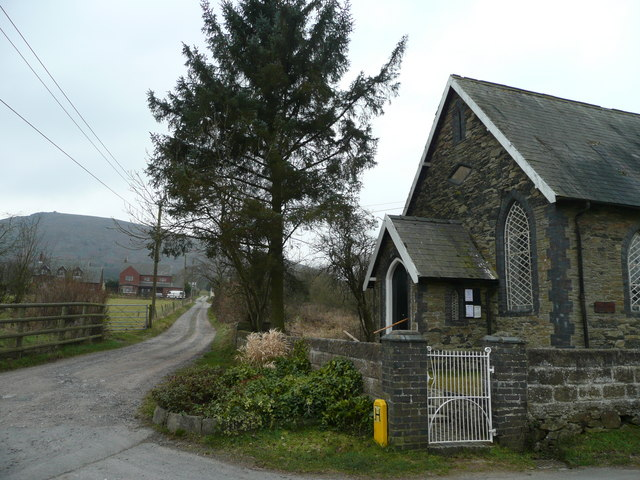 Chapel at White Grit, near to The Marsh, Powys, Great Britain. Serving the isolated mining community in the shadow of Corndon Hill.